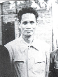 Phạm Văn Đồng: Vice Prime Minister (1954), Prime Minister of Vietnam (1955-87)